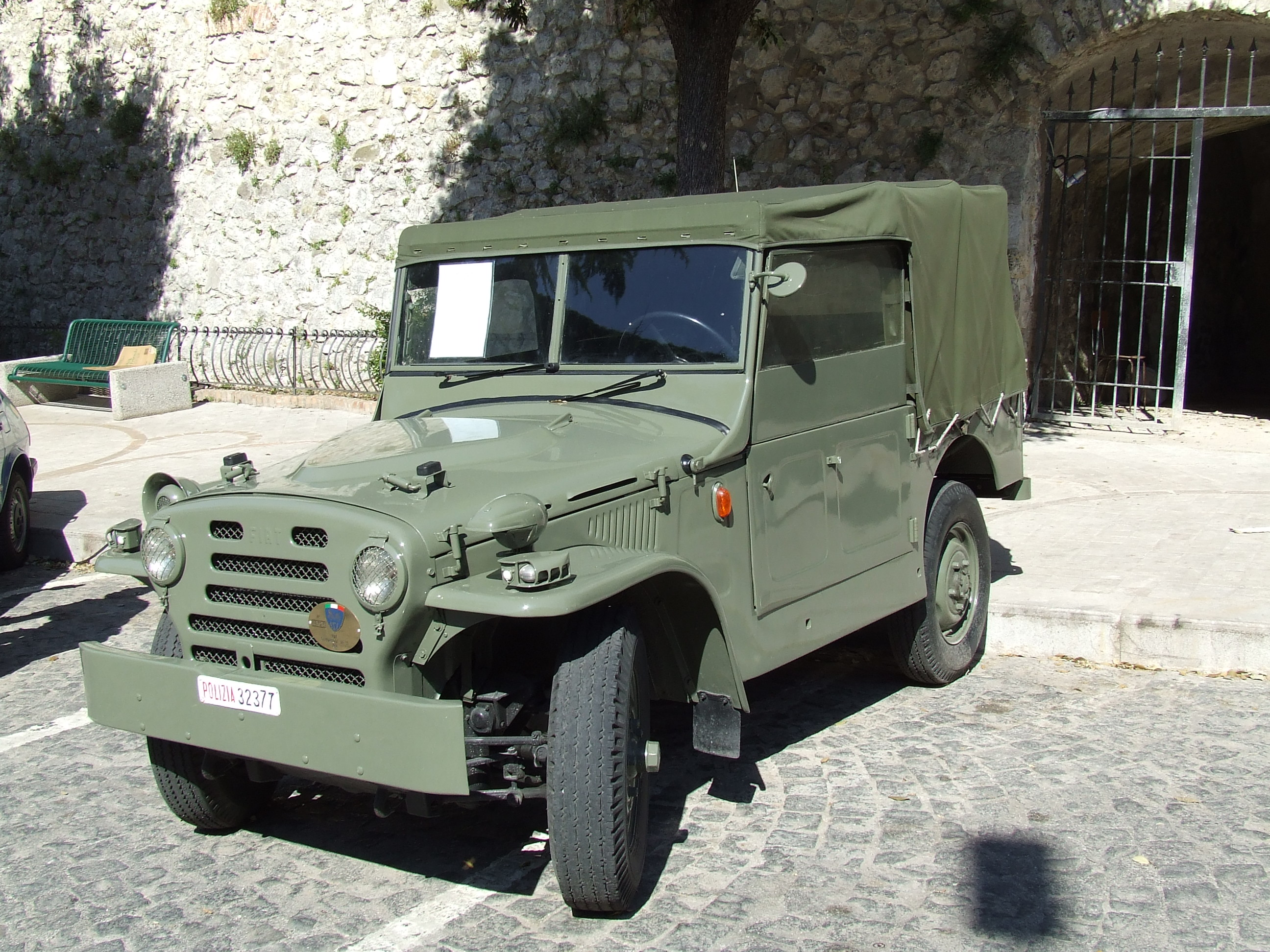 Italian Polizia di Stato Fiat Campagnola